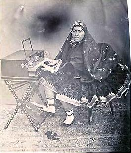 D. Ermakov. Photographer Nasreddin Shah. One of the 90 wives harem for a musical instrument